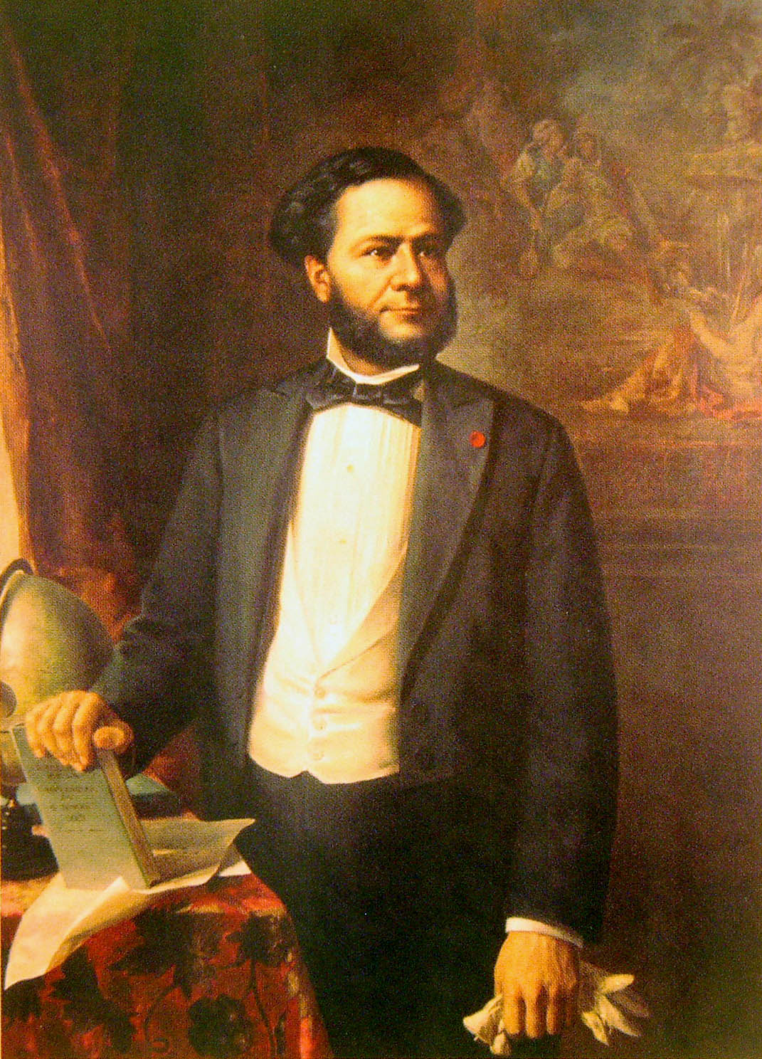 José María Castro, president of Costa Rica 1847-1849 & 1866-1868